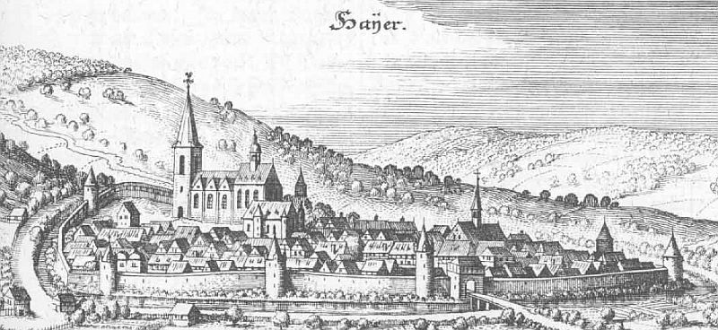 This is a scan of the historical document: Title: Haiger - Topographia Hassiae language: german